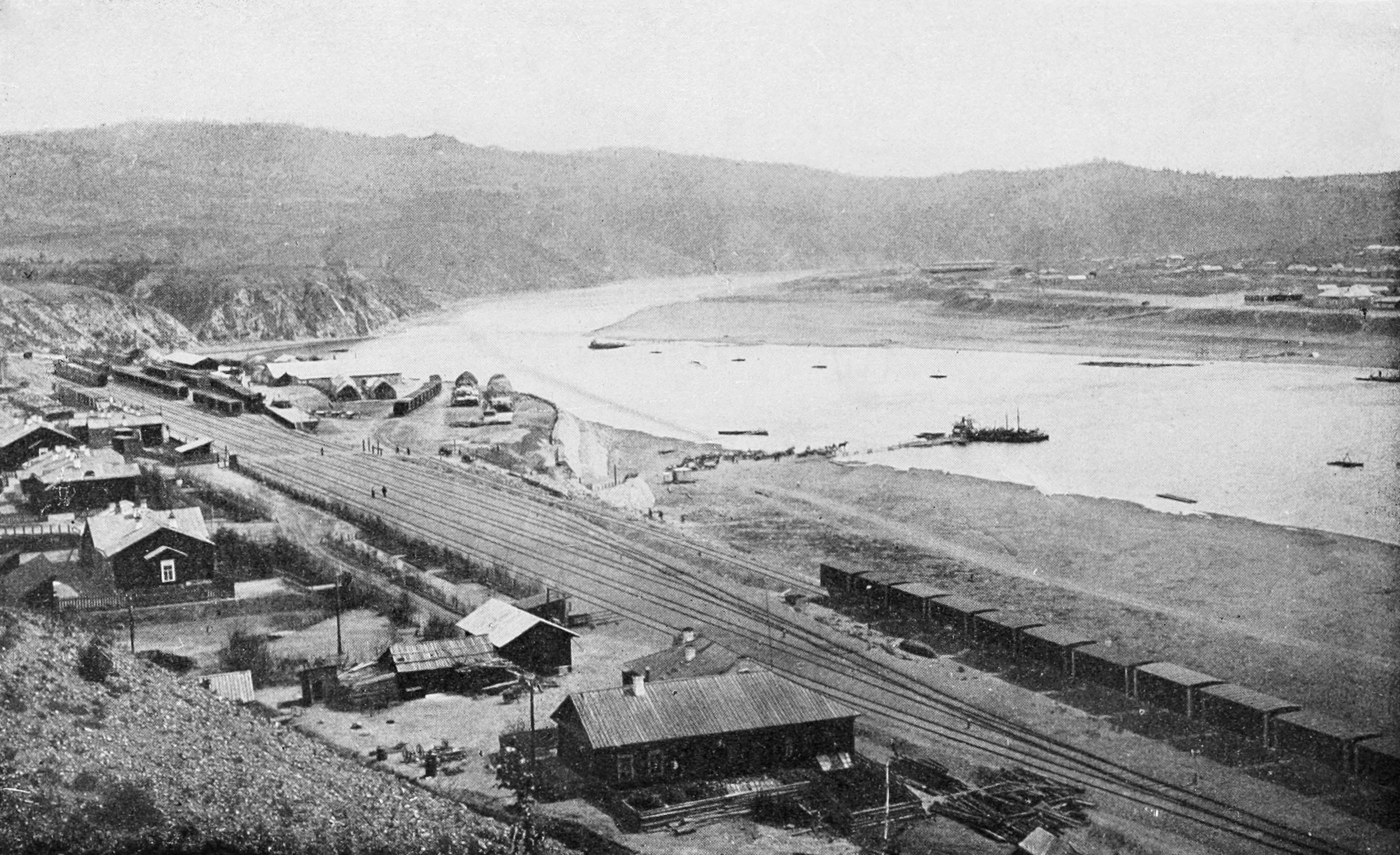 Title: Travelogues; Year: 1917 (1910s) Authors: Holmes, Burton, b. 1870 Subjects: Argentina -- Description and travel Chile -- Description and travel Brazil -- Description and travel South America -- Description and travel Iguassu Falls Publisher: Chicago, Travelogue Bureau Text Appearing Before Image: A MENDICANT Text Appearing After Image: THE TRANS-SIBERIAN RAILWAY 321